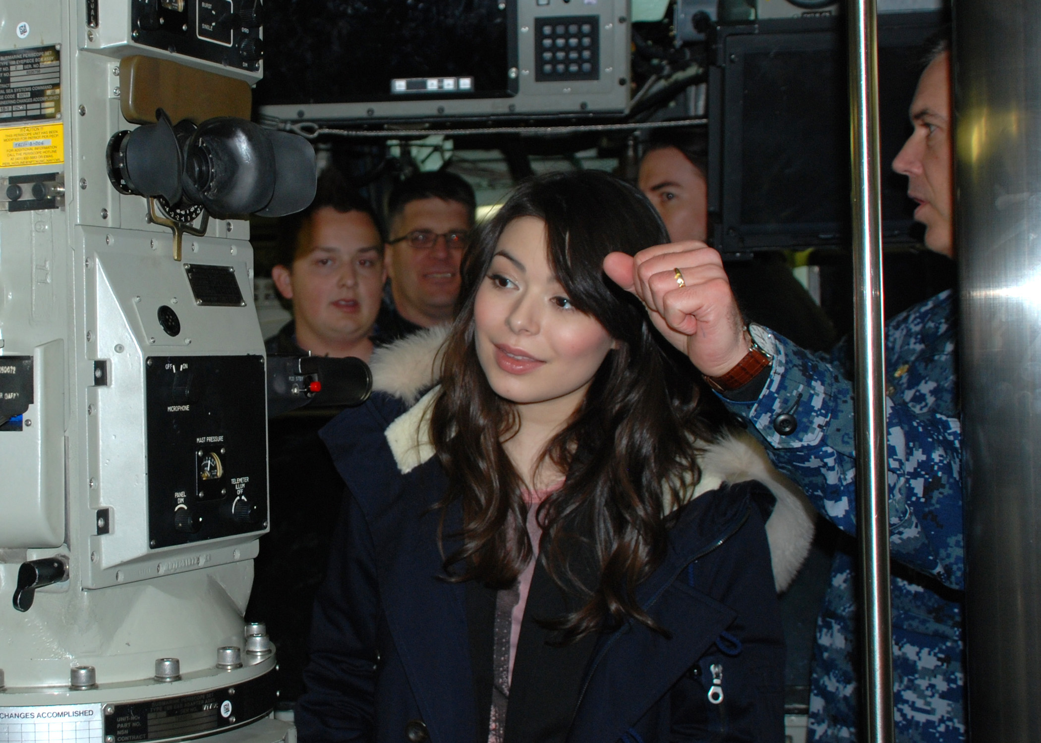 U.S. Navy Cmdr. Steven Wilkinson, the commanding officer of submarine USS Hartford (SSN 768), explains to the cast of Nickelodeon's TV show iCarly how to use the periscope in Groton, Conn., Jan. 11, 2012. Members of the cast were visiting New London to show a special screening of an episode focusing on military family support at Naval Submarine Base New London.